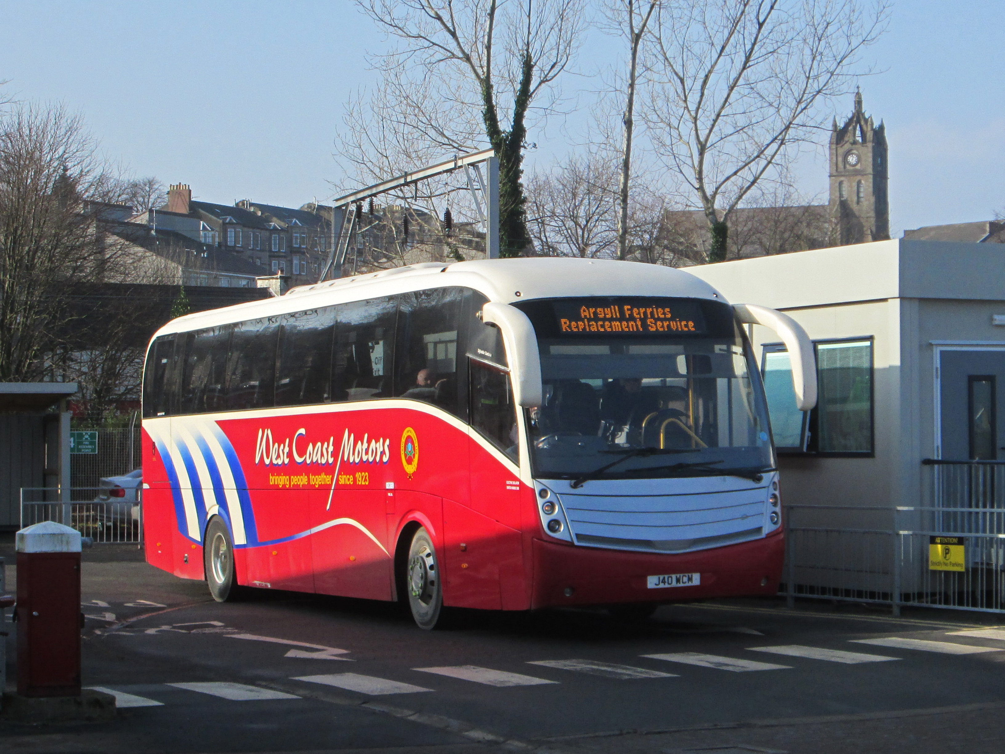 Gourock Pier: West Coast Motors bus providing "Argyll Ferries Replacement Service" while Gourock–Dunoon sailings suspended due to adverse weather.